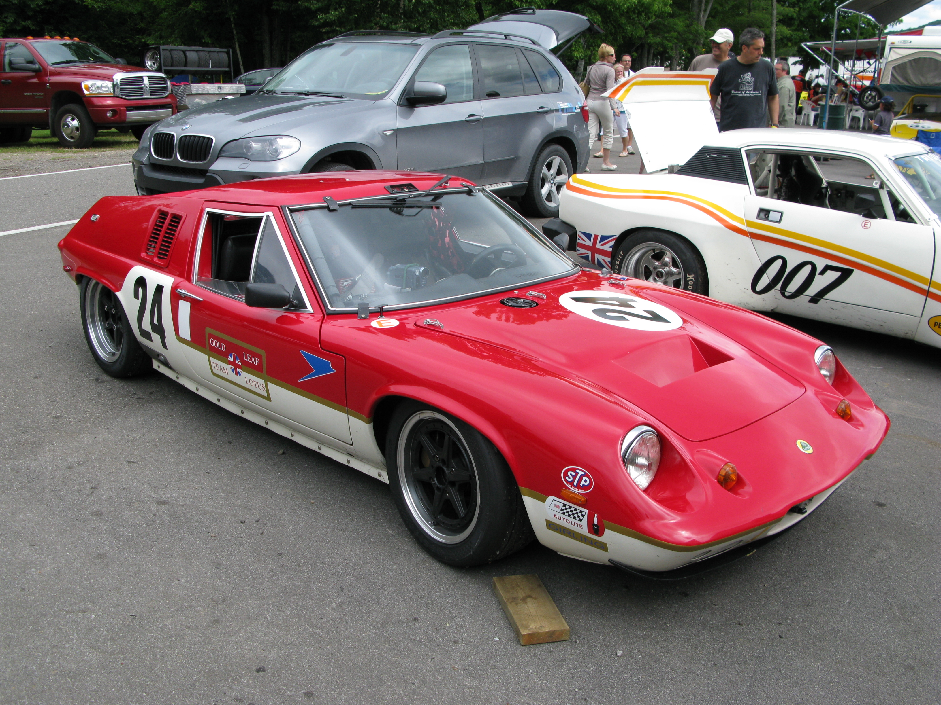 A Lotus 47 racing car, in Gold Leaf Team Lotus livery. Pictured at the Sommet des Légends race meeting, Circuit Mont-Tremblant, Quebec, Canada. July 2009.